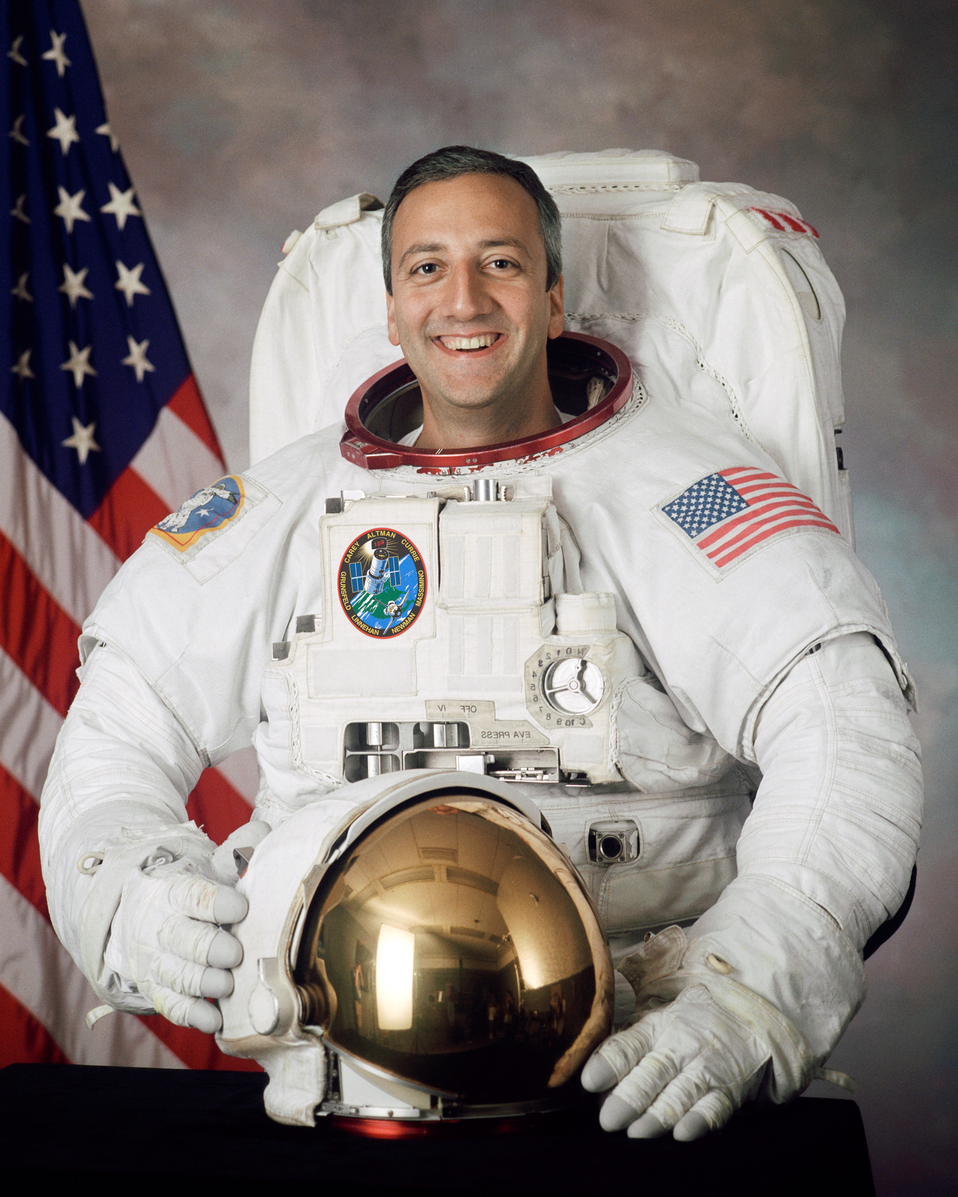 Michael J. Massimino, STS-109 mission specialist.